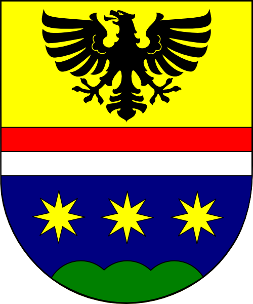 Coat of arms (shield only) of Bertalan Miklós Milassin, bishop of Székesfehérvár, Hungary (1790 - 1811).